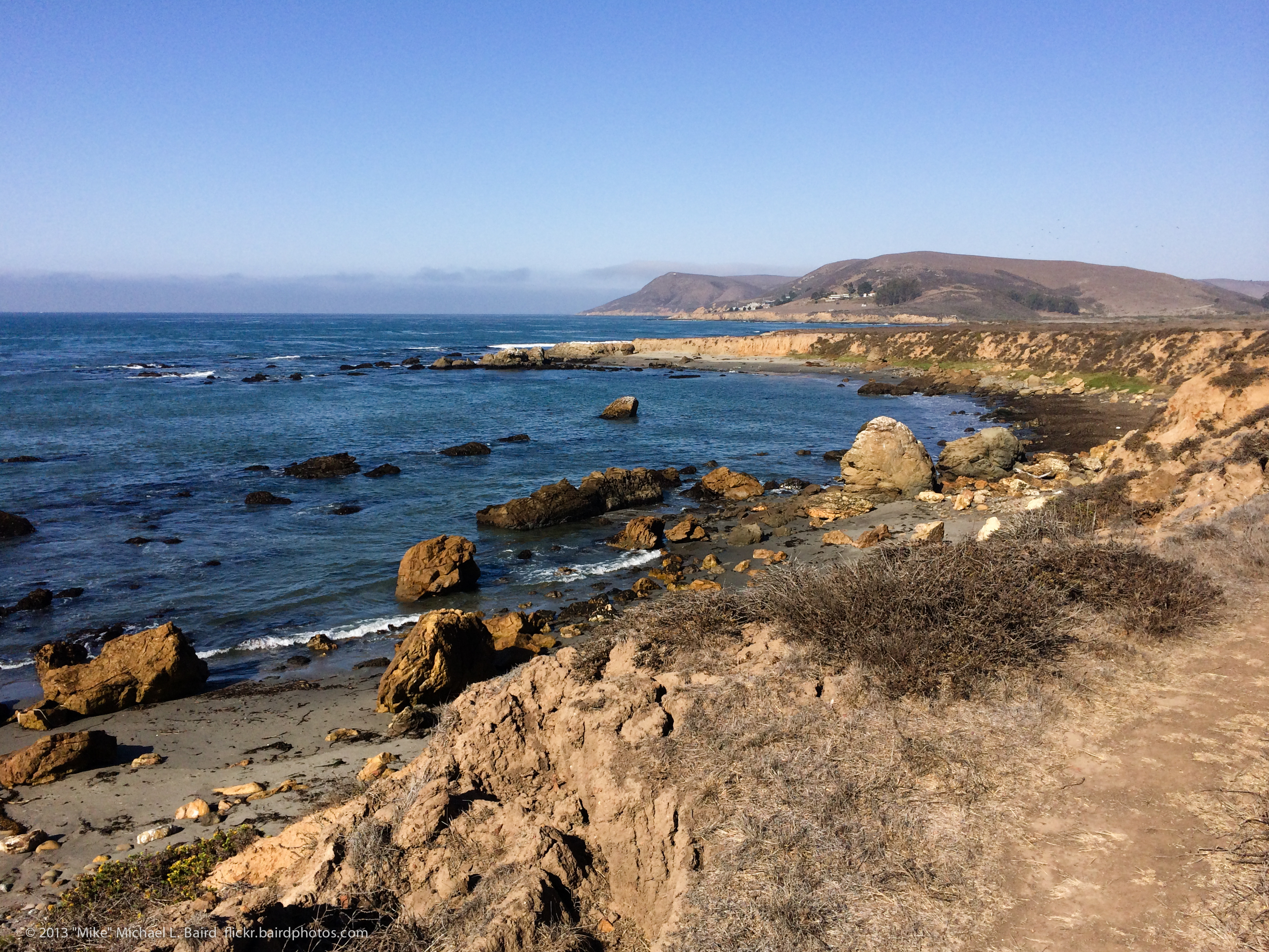 Estero Bluffs State Park, just north of Cayucos, CA, 10 October 2013. syas “Estero Bluffs State Park is located north of Cayucos and west of Highway One from the intersection of North Ocean Street to Villa Creek. The park is approximately 355 acres consisting of grassland-dominated coastal terrace that slopes from Highway One to the Pacific Ocean. The property is bisected by San Geronimo and Villa Creeks.” says “The purpose of the Estero Bluffs SP, in San Luis Obispo County, is to preserve and protect a rich, diverse and particularly scenic area of the Pacific Ocean coast, with sea stacks and intertidal areas, a substantial area of wetlands, low bluffs and coastal terraces punctuated by a number of perennial and intermittent streams, and containing a pocket cove and beach at Villa Creek. The property's rich diversity of habitat types includes marine, intertidal, estuarine, riverine, coastal salt marsh, freshwater marsh, coastal foredune, coastal and riparian scrub and grassland, collectively providing habitat for a number of endangered species, including the snowy plover. The property includes Native American occupancy sites.” Photo © 2013 “Mike” Michael L. Baird, mike {at] mikebaird d o t com, , Fujifilm X100S 16 MP Digital Camera, handheld, RAW. See EXIF for detailed settings. To use this photo, see access, attribution, and commenting recommendations at - Please add comments/notes/tags to add to or correct information, identification, etc. Please, no comments or invites with badges, images, multiple invites, award levels, flashing icons, or award/post rules